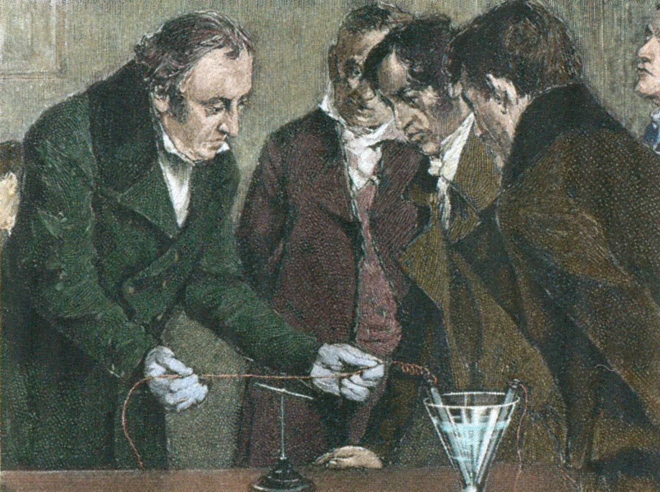 Oersted discovers electromagnetism in 1820. Engraving with later colouration.